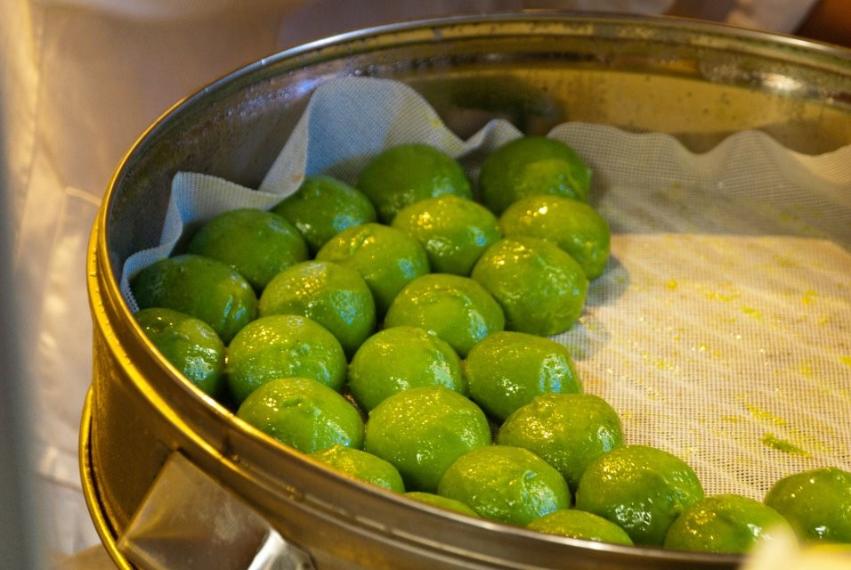 qingtuan